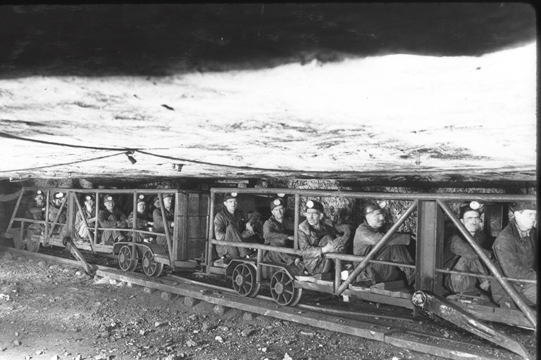 Miners take a shuttle car that transports them to work in the mine.